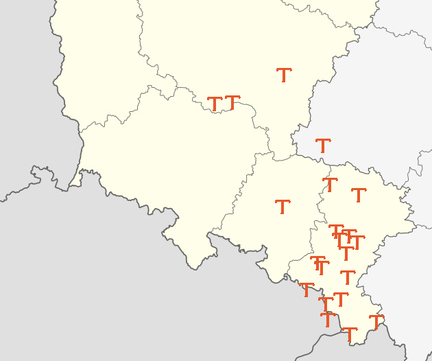 Distribution of the religious friaries of the Franciscan Province of the Assumption of the Blessed Virgin Mary in Poland.